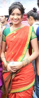 Asha Negi as Purvi Desmukh on the sets of Pavitra Rishta